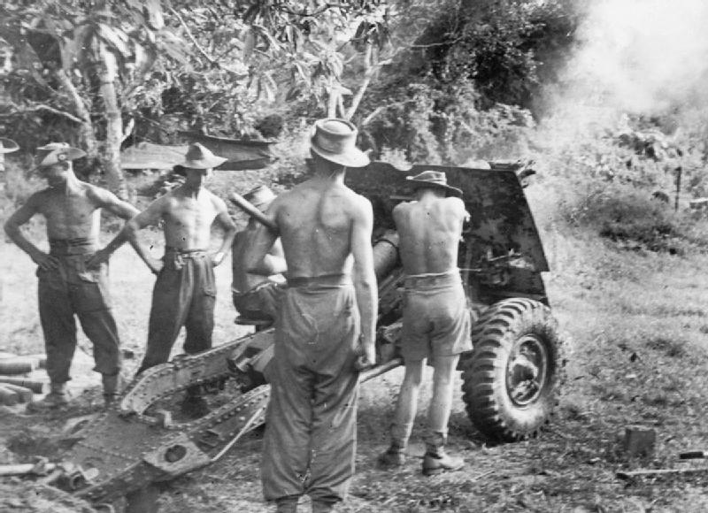 The British Army in Burma 1944 Men of the 36th Infantry Division firing a 25-pdr field gun.